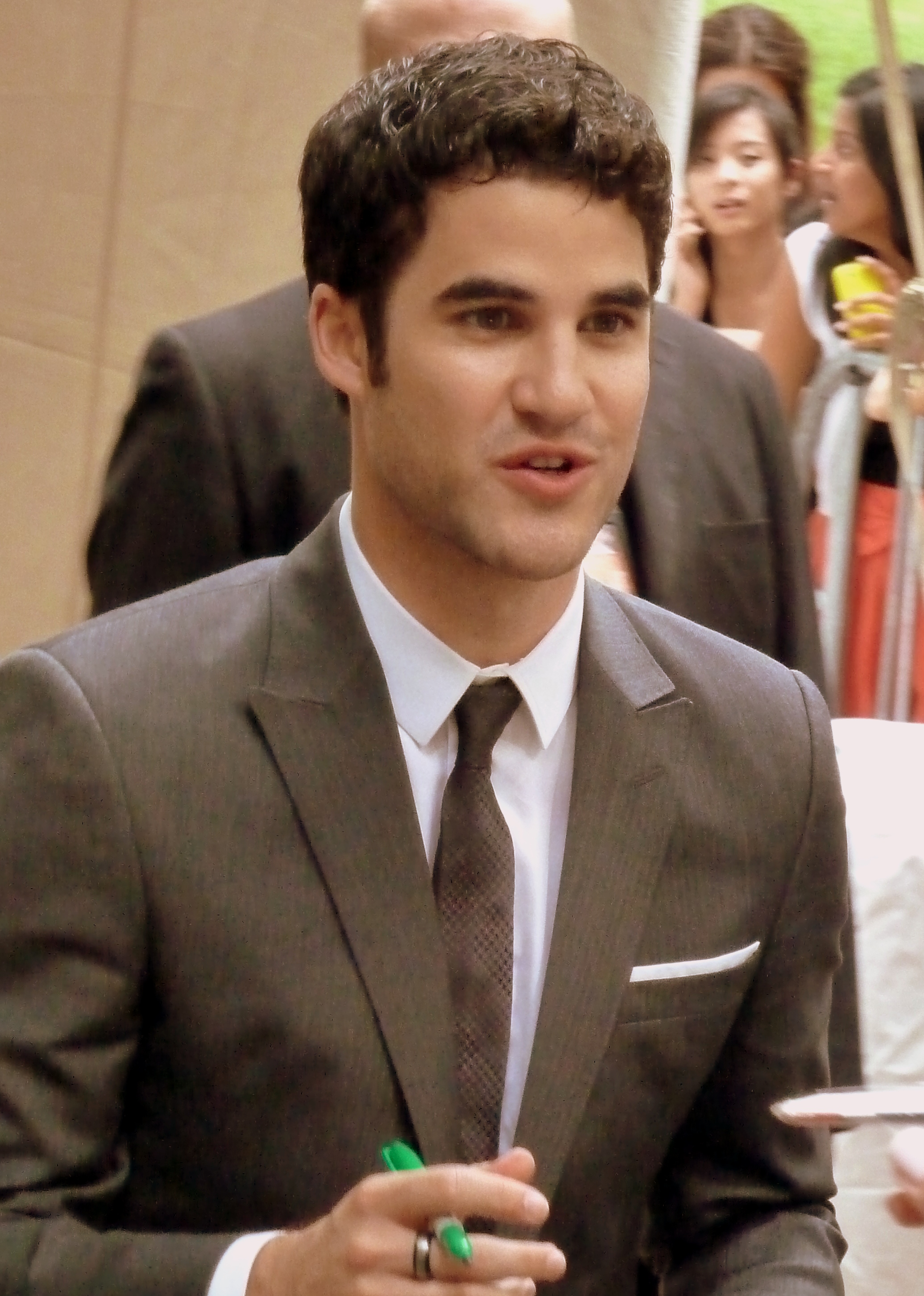 Darren Criss at the premiere of Imogene, in the Toronto Film Festival 2012.